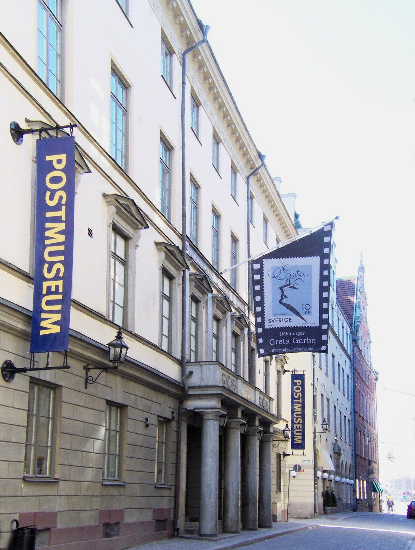 Postmuseum i Gamla stan,Stockholm. Postal museum in the Old City of Stockholm,Sweden